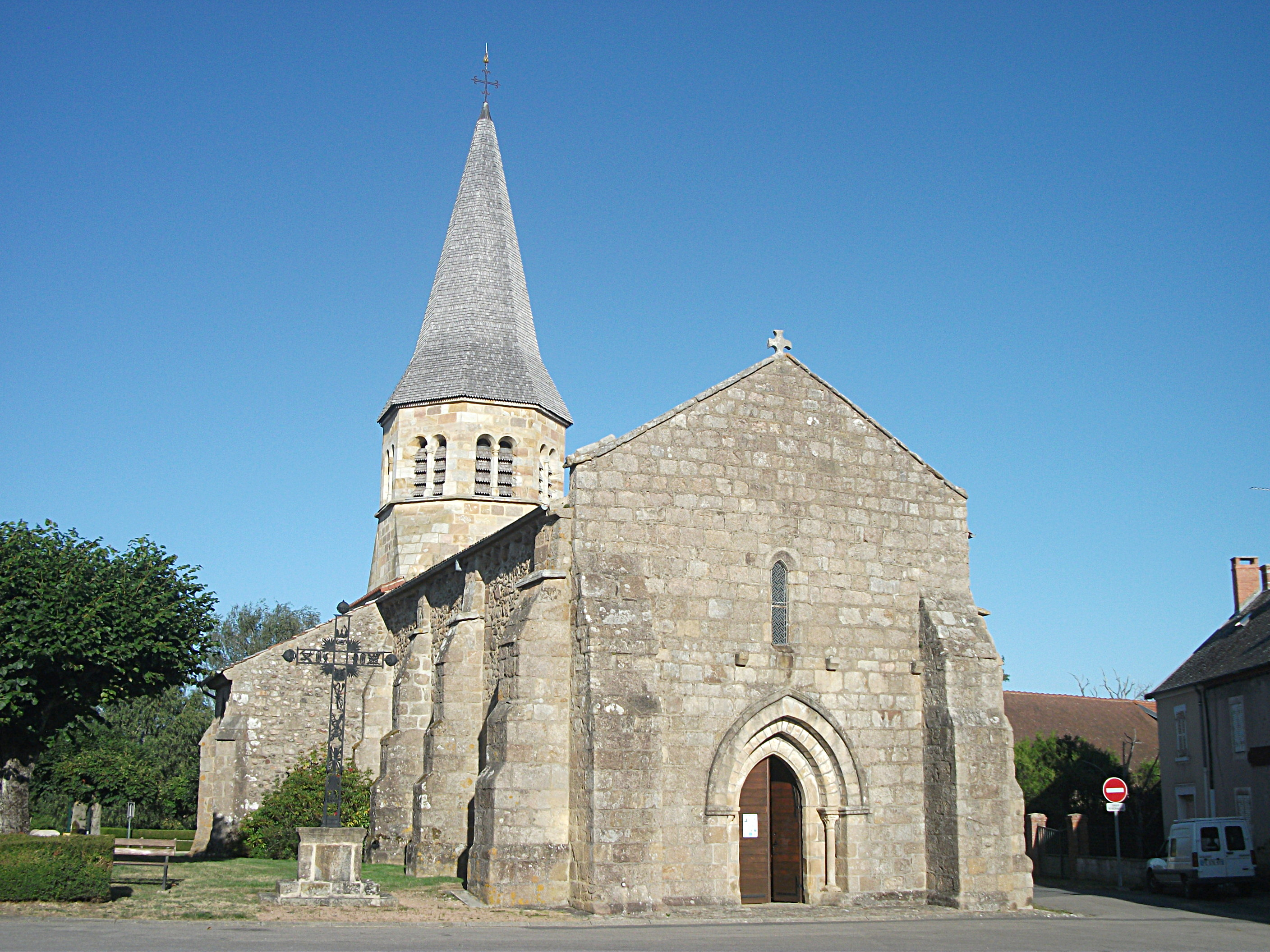 Church St. Patrocle in La Celle, Allier, Auvergne-Rhône-Alpes, France. [19026]